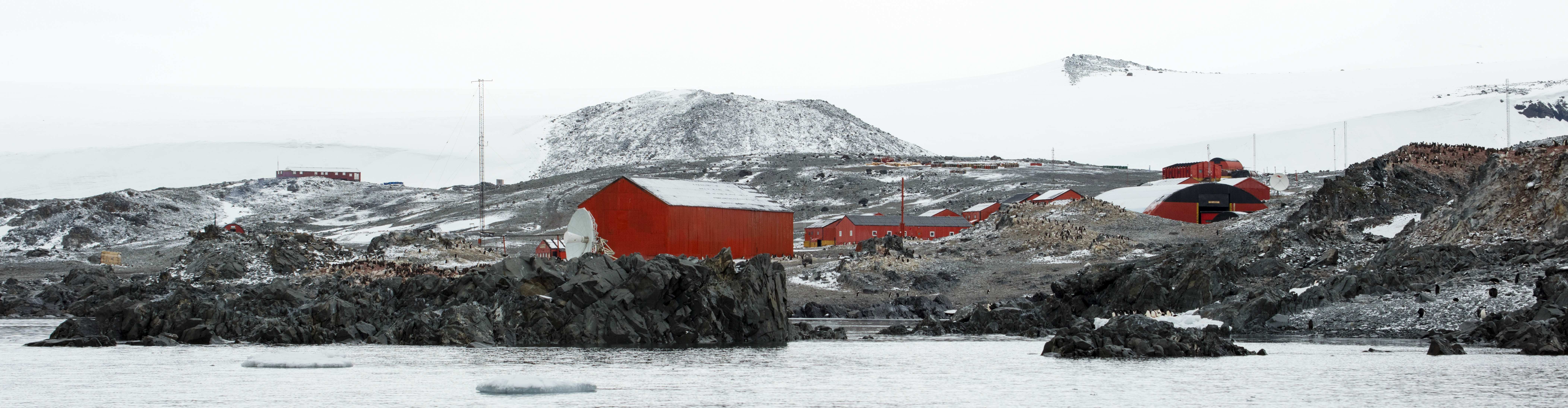 Esperanza Station, Hope Bay, Trinity Peninsula, on the northernmost tip of the Antarctic Peninsula